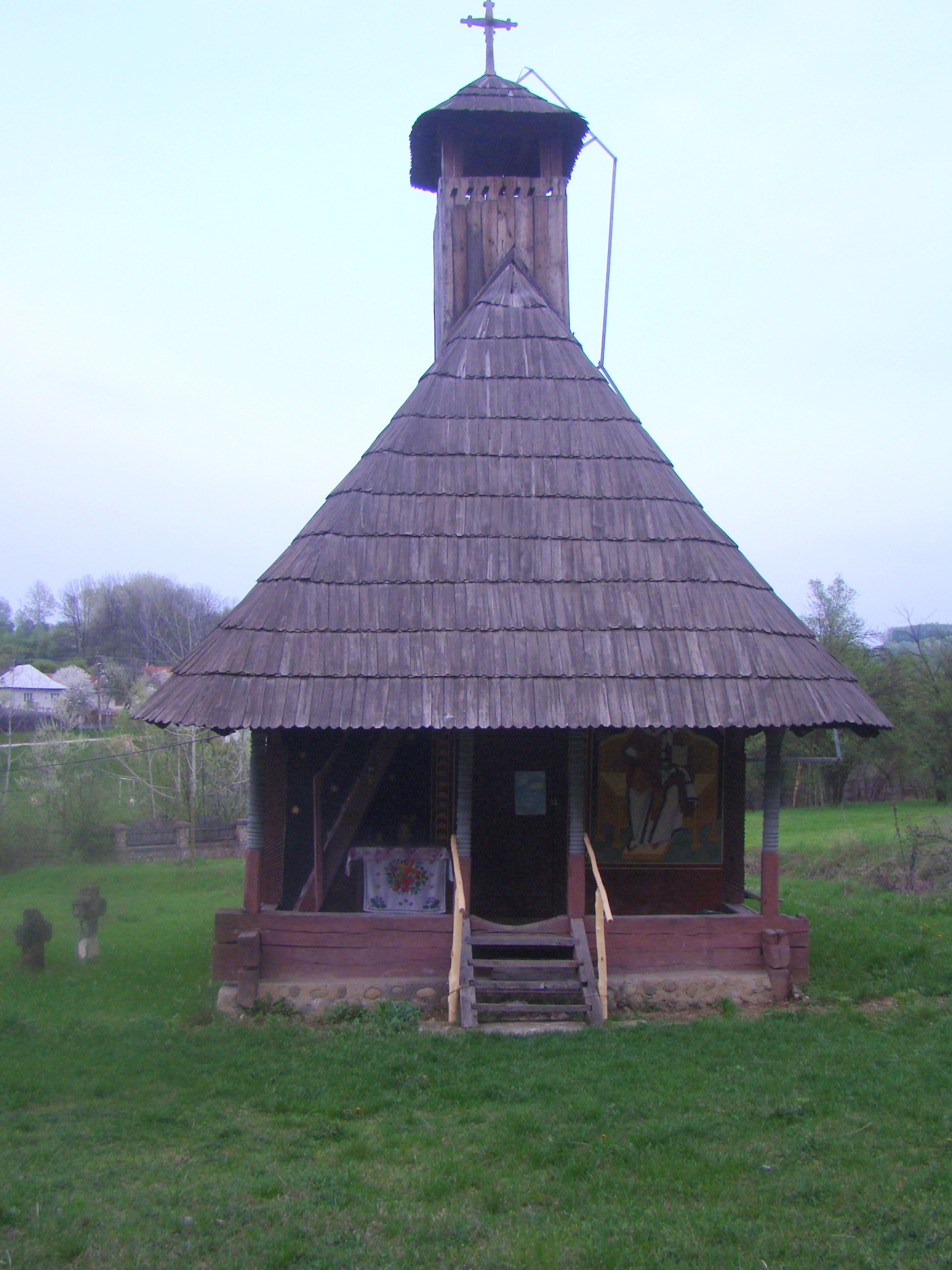 Saint Nicholas wooden church in Știucani, Gorj county, Romania